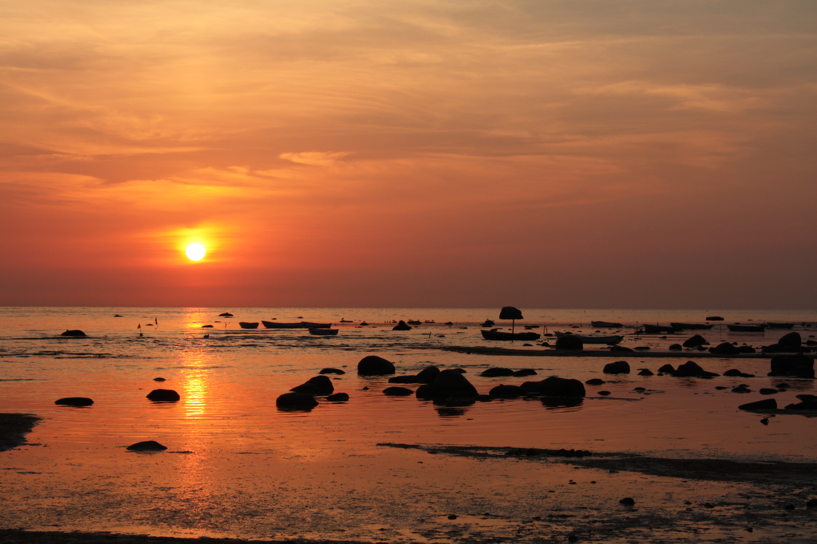 Sunset in Kakumae